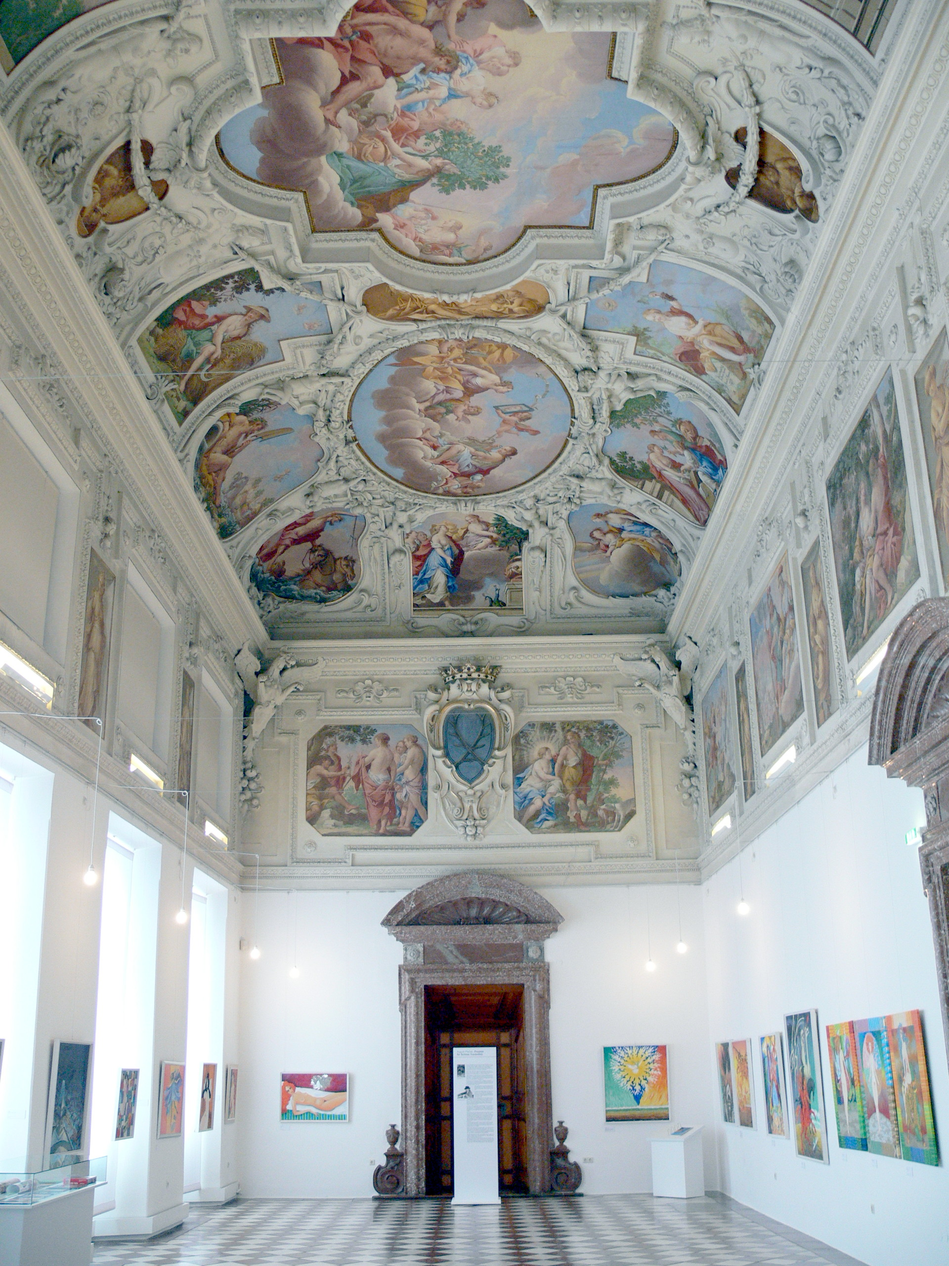 Trautenfels castle ( Styria ). Marble hall with frescos ( 1670-1673 ) of Carpoforo Tencalla.